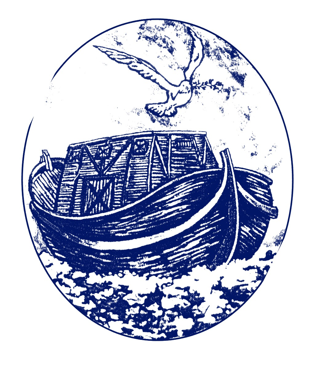 Arm of Our lady of Peace brotherhood of Taranto